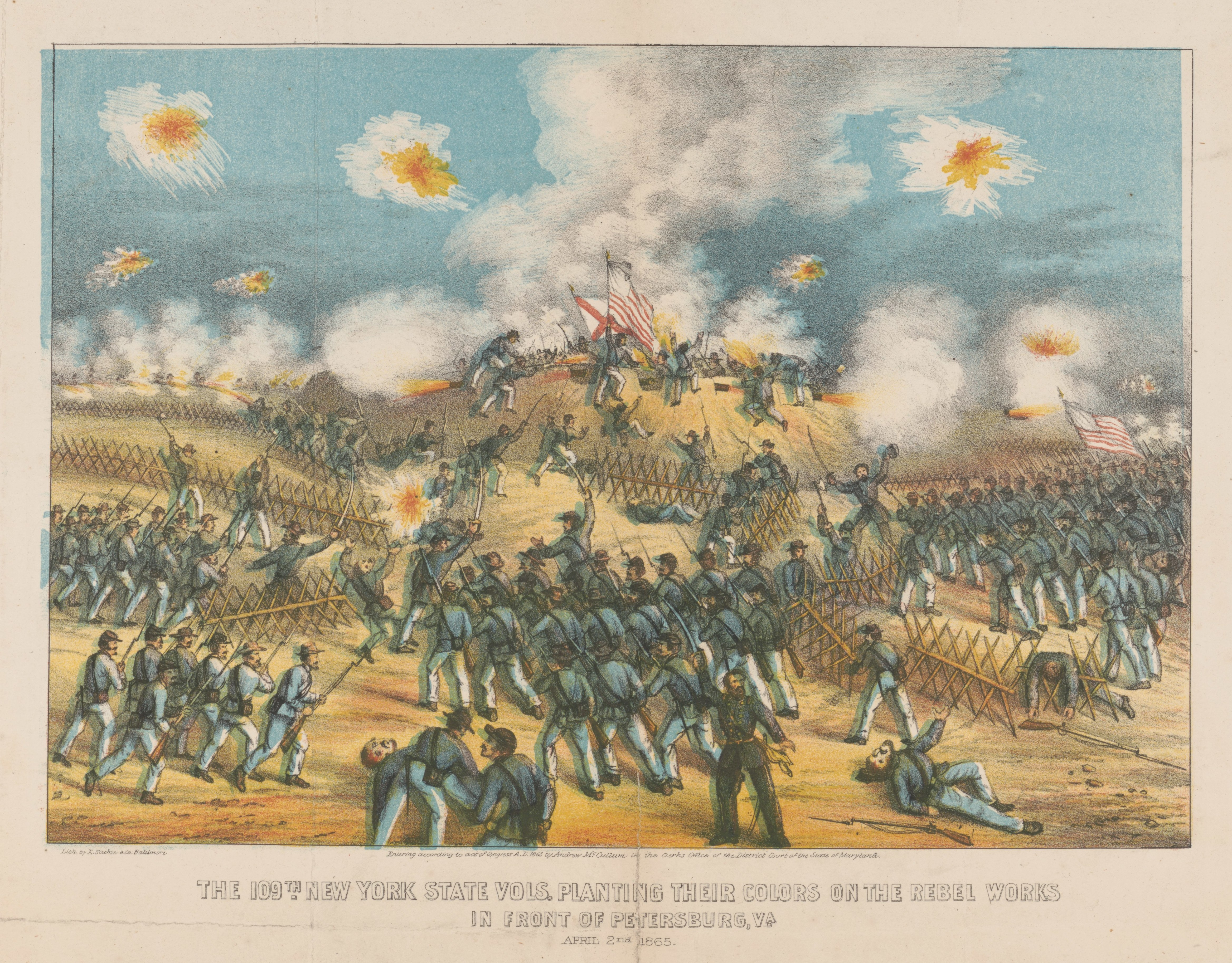 Title: The 109th New York State vols. planting their colors on the rebel works in front of Petersburg, Va. April 2nd 1865 Abstract: Print shows Union troops attacking Confederate fortifications in Petersburg, Virginia, on the day before Richmond fell to Union control. Physical description: 1 print : chromolithograph. Notes: The 109th New York Infantry was also known as the Binghamton Regiment. It served in the 1st Brigade, 1st Division, 9th Corps, Army of the Potomac. The troops participated in the Siege of Petersburg.; Title from item.; Andrew McCallum, 1821-1902, was a sketch artist for Frank Leslie's Illustrated Magazine, who covered the Siege of Petersburg.; Entered according to Act of Congress A.D. 1865 by Andrew McCullum [sic] in the Clerk's Office of the District Court of the State of Maryland.; lith. by E. Sachse & Co. Baltimore.